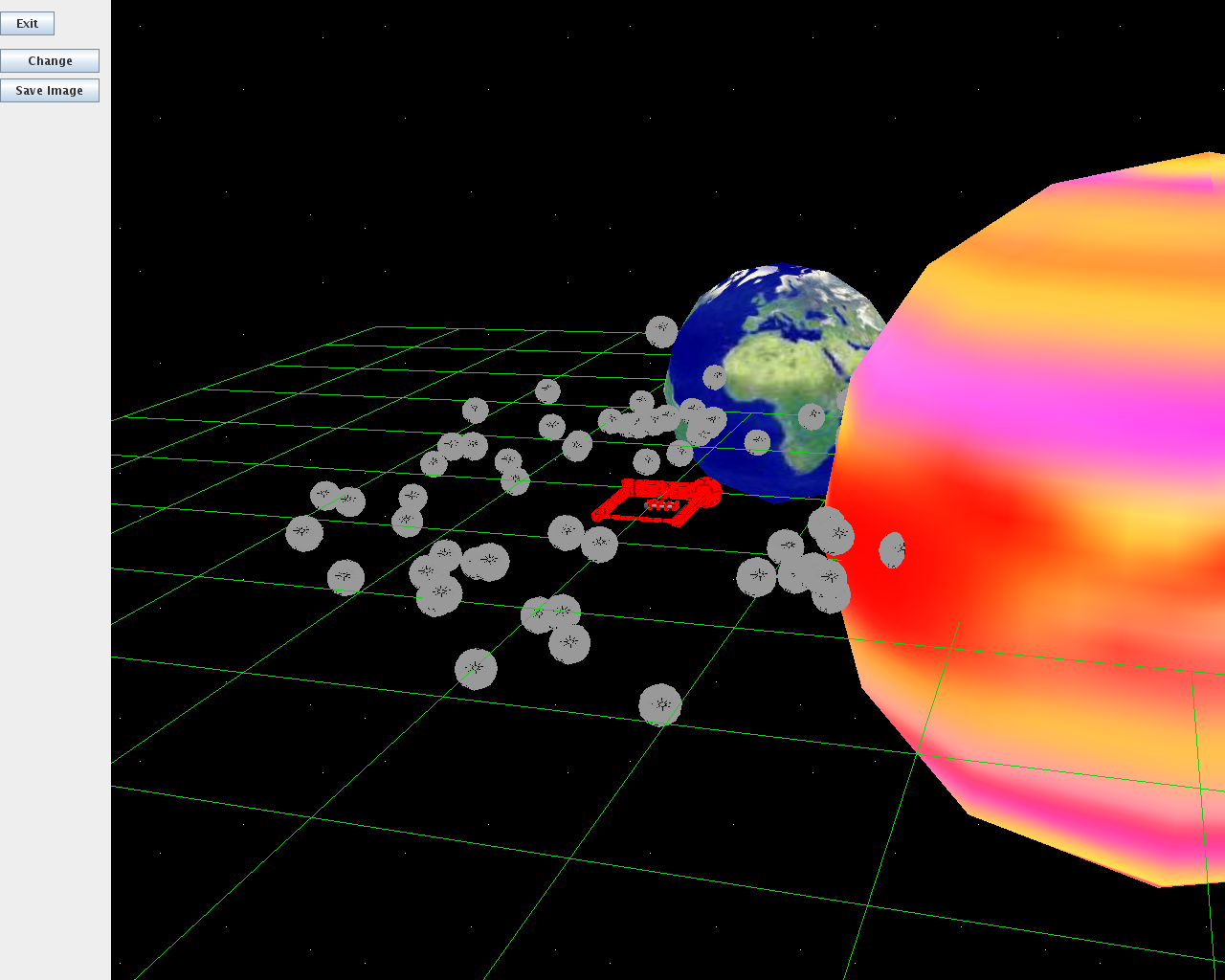 1. I drew this, taking a screenshot of my work with java 3d.